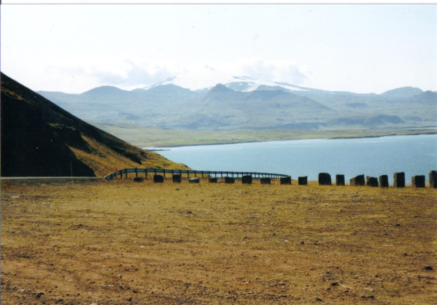 The glacier Snæfellsjökull in Iceland, viewed from the north-east of the Snæfellsnes peninsula.